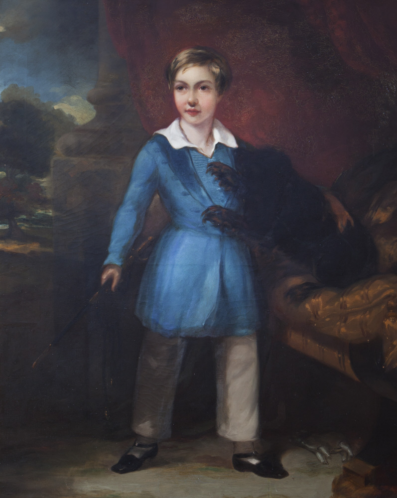 An oil painting on canvas of William Frederick 'Mad' Windham (1840-1866) as a boy, by the British (English) School. It is a full-length portrait of a young boy dressed in a blue coat who is holding a sword in his right hand, while his left hand embraces a black spaniel on a sofa. Behind him is a column and a red curtain, beyond which is a landscape. There are toys on the floor. He was the penultimate Windham of Felbrigg, who inherited a heavily encumbered estate from his father and a rogue Hervey gene from his mother. When the bank foreclosed, Felbrigg was bought by John Ketton and 'Mad' Windham ended up as an 'Express' coach-driver.